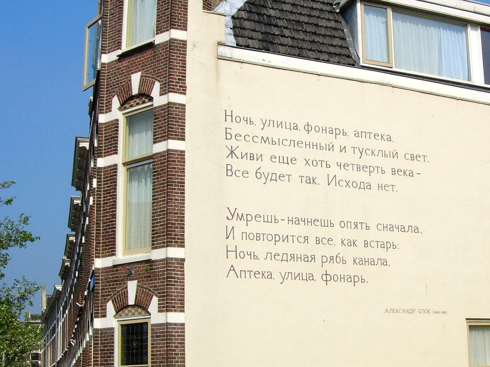 Alexander Blok's poem 'Noch, ulica, fonar, apteka' on a wall in the Dutch city of Leiden (corner Roodenburgerstraat/Thorbeckestraat) Russian text and English translation below gratefully copied from Christopher Laws 17 August, 2019 Translation: The night. The street. Street-lamp. Drugstore. A meaningless dull light about. You may live twenty-five years more; All will still be there. No way out. You die. You start again and all Will be repeated as before: The cold rippling of a canal. The night. The street. Street-lamp. Drugstore. 10 October 1912 Translated by Vladimir Markov and Merrill Sparks